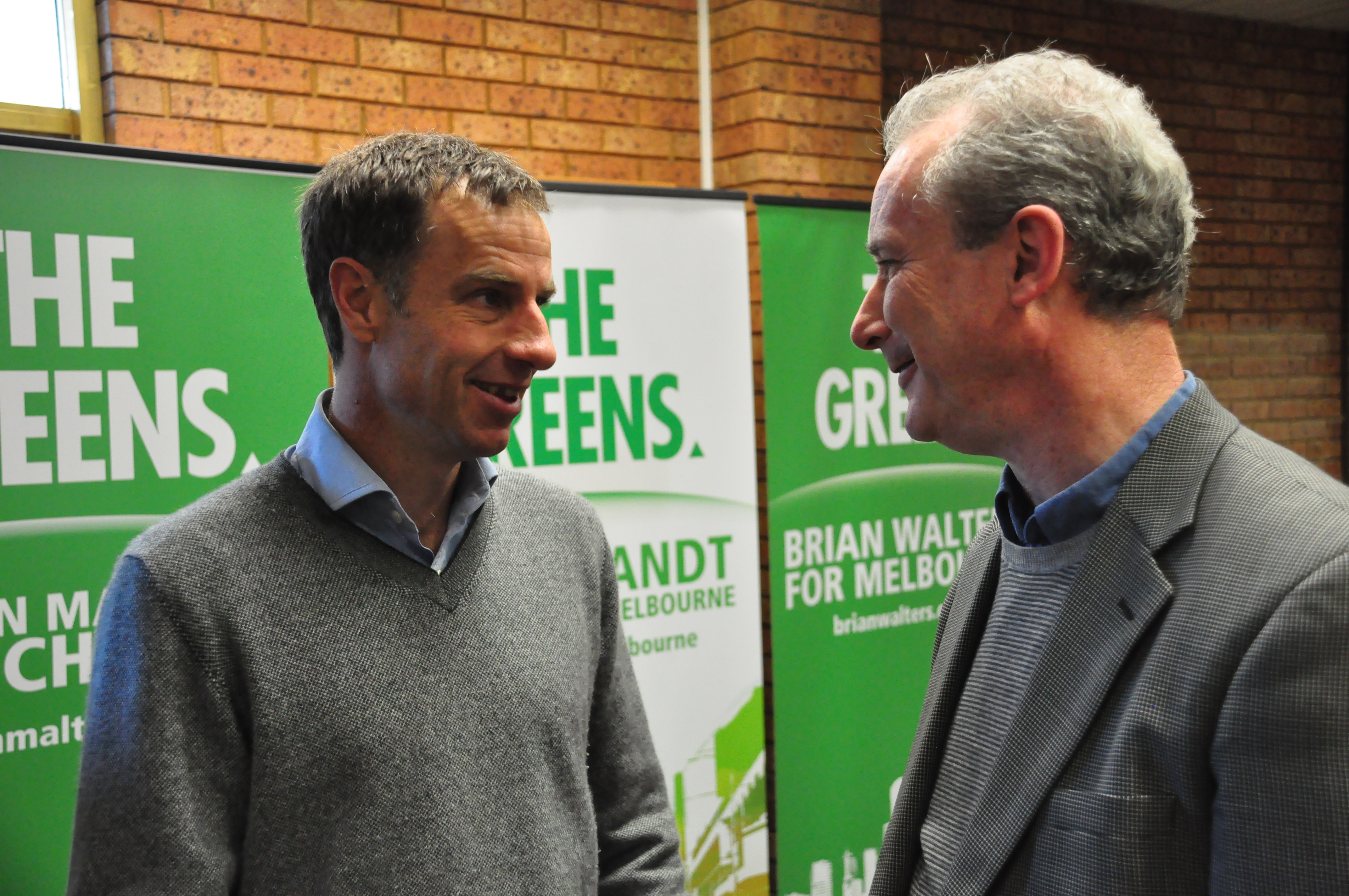 Nick McKim and Brian Walters in Brunswick, Melbourne, Australia